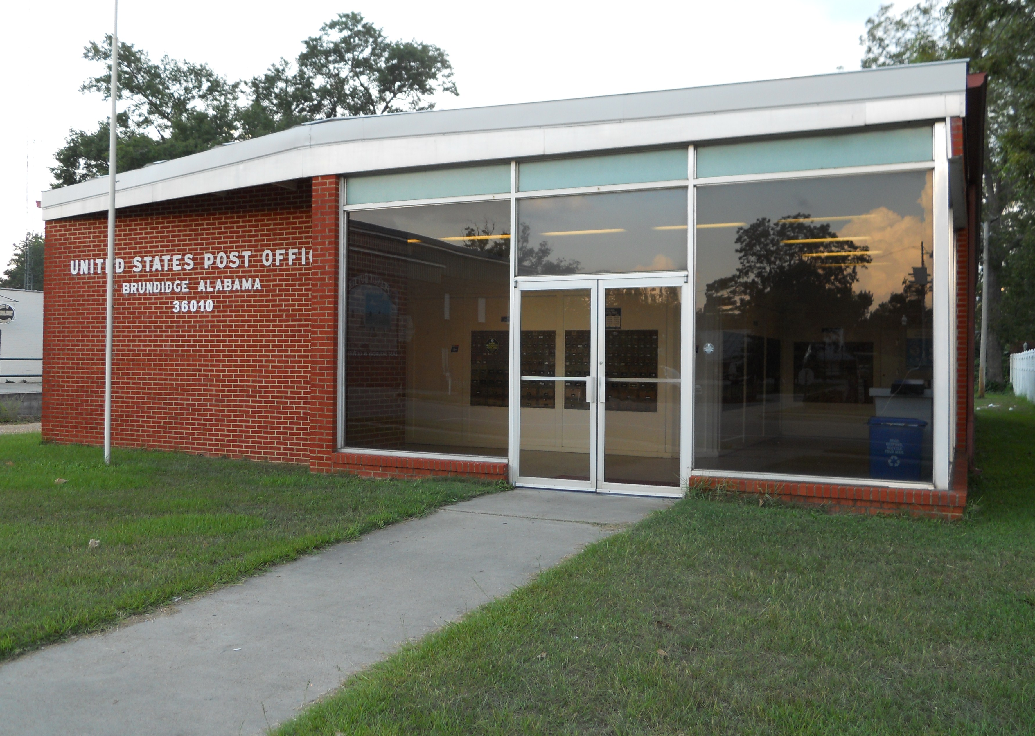 This is a photograph of the post office in Brundidge, Alabama